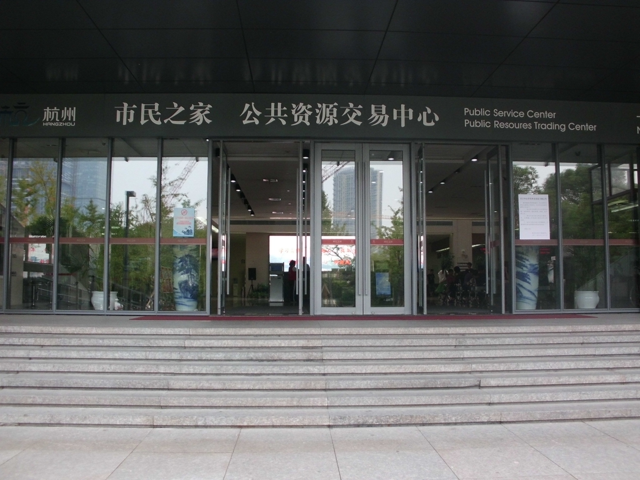 Hangzhou public service center